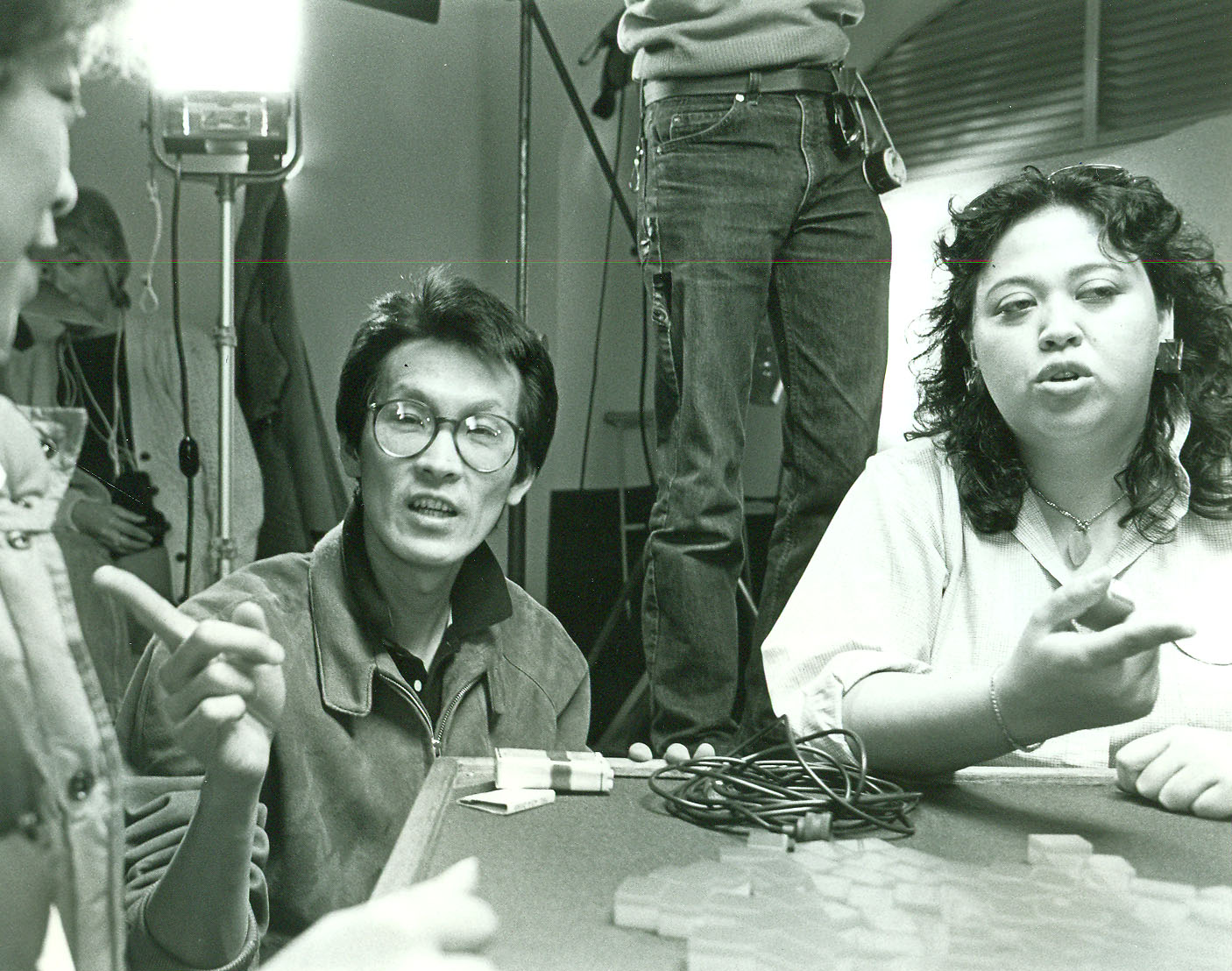 Actor Amy Hill interprets Wayne Wang's film direction on shooting a scene in "Dim Sum: A Little Bit of Heart" on location in San Francisco, California. Photograph taken in 1983 by Nancy Wong.